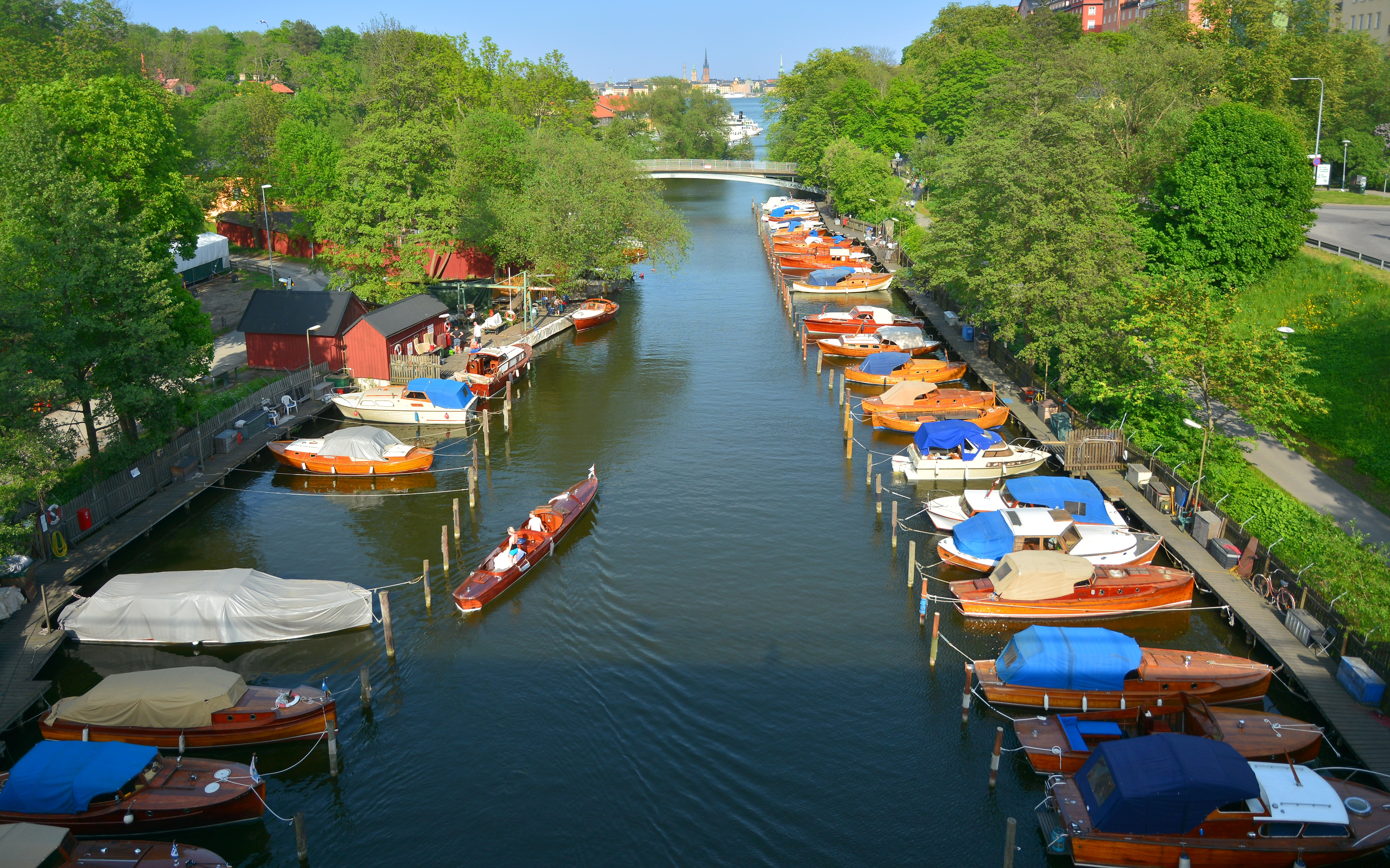 Pålsundet between Södermalm and Långholmen, photo from Västerbron.